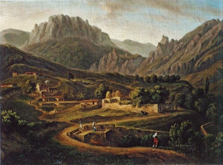 Jacques-Christophe Miville. View of Kuss ali Koss village in Crimea. 1814